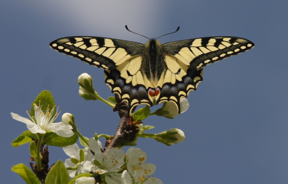 Old World Swallowtail (Papilio machaon), Fertőboz, Hungary